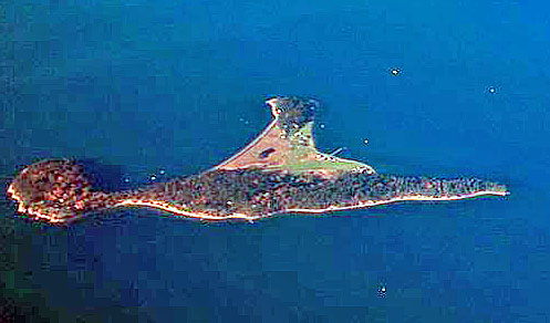 Eliza Island